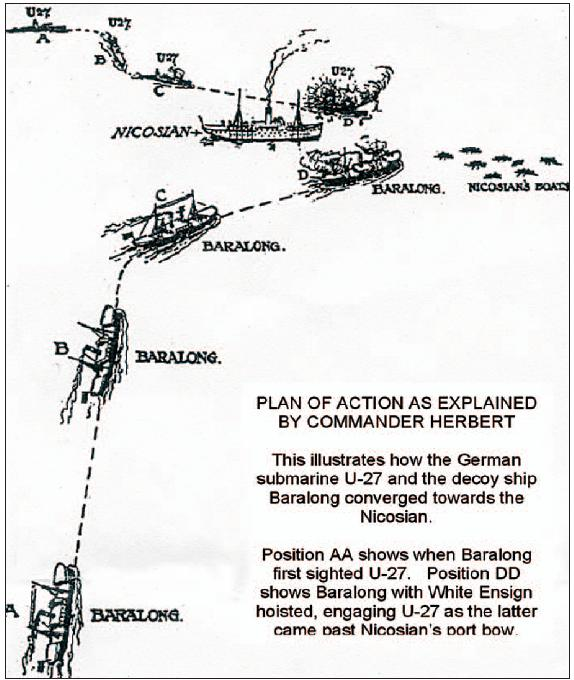 HMS Baralong, 19.08.1915